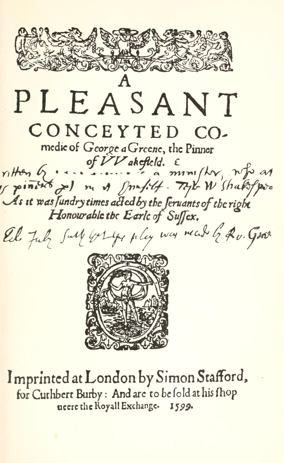 Title page of "The Pinner of Wakefield", 1599 edition, attributed to Robert Greene